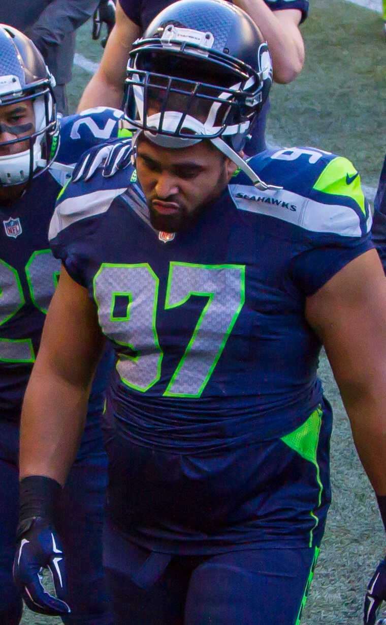 49ers at Seahawks 2014